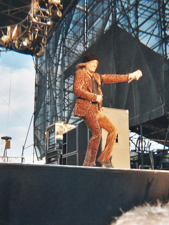 Skid Row/ Quiet Riot Concert. Reno, NV. July 2005